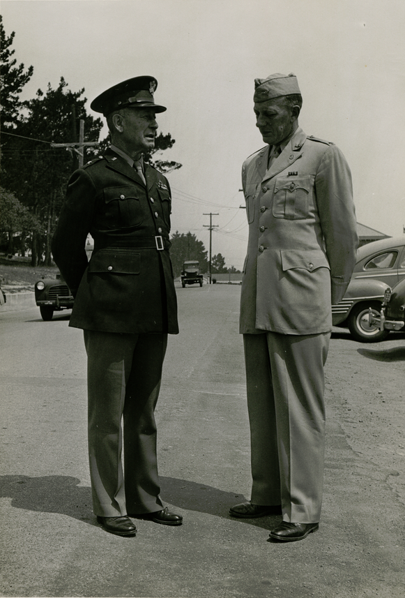 Civil Affairs Staging Area (CASA) Commander Brigadier General Percy L. Sadler and former CASA Commander Colonel Hardy Cross Dillard, acting as executive officer, at the Presidio of Monterey in July of 1945.